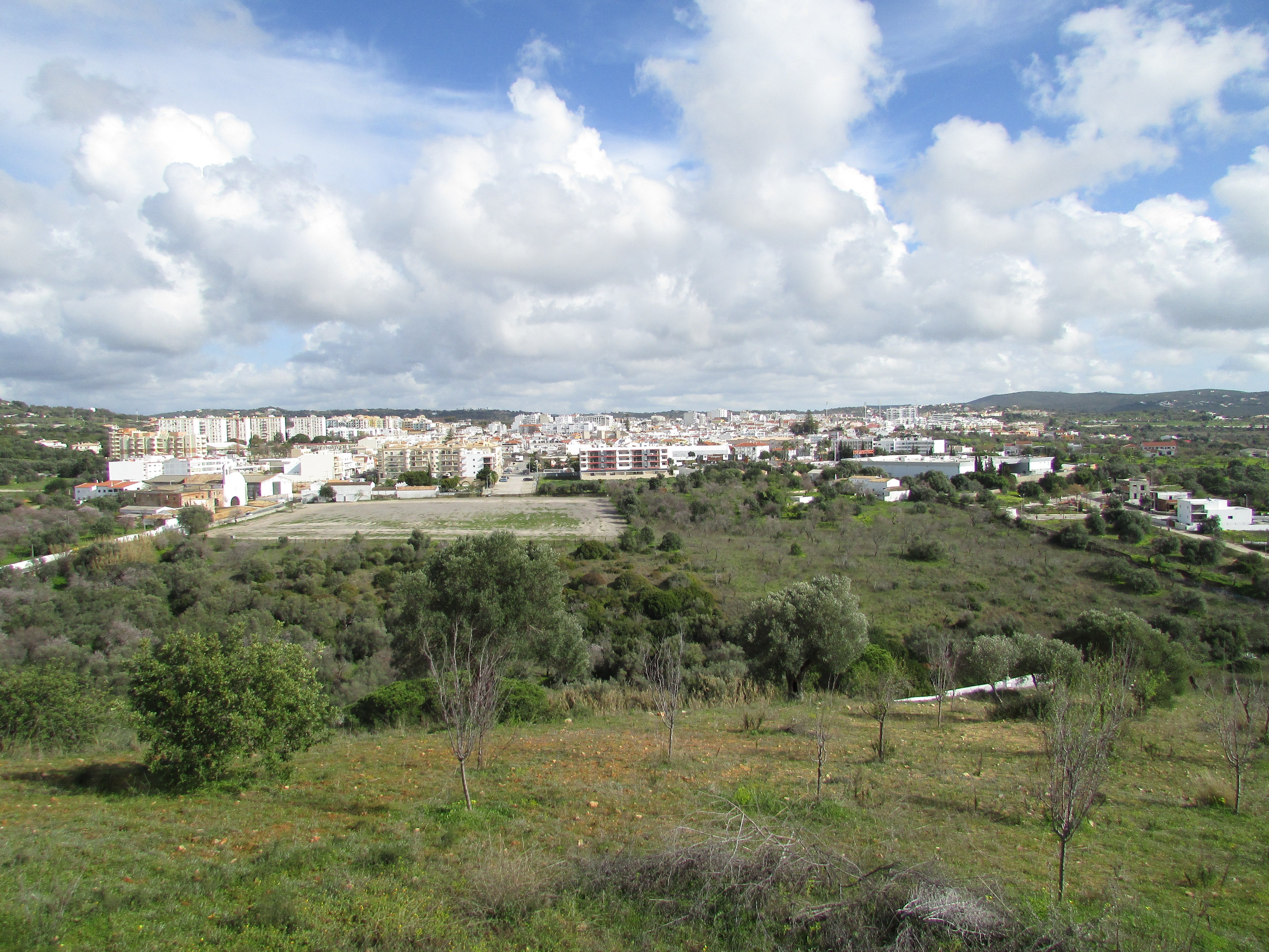 A cityscape vie of the city of Loulé, Algarve, Portugal, as viewed fromthe Santuário de Nossa Senhora da Piedade (Sanctuary of our Lady of Mercy) located on a hill west of the city of Loulé.